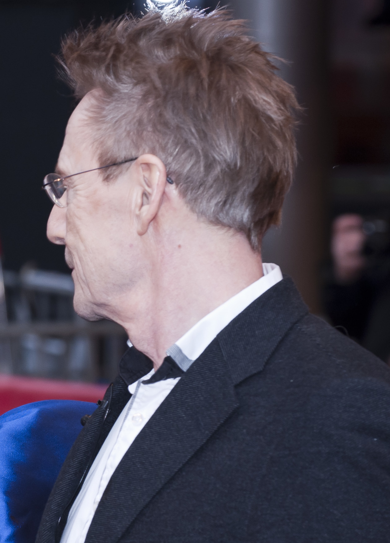 L-R: Johan Philip (Pilou) Asbæk, Pernille Fischer Christensen, Jesper Christensen; Premiere of the Danish movie "EN FAMILIE" (A Family) at the Berlinae Palast February 19th, 2010